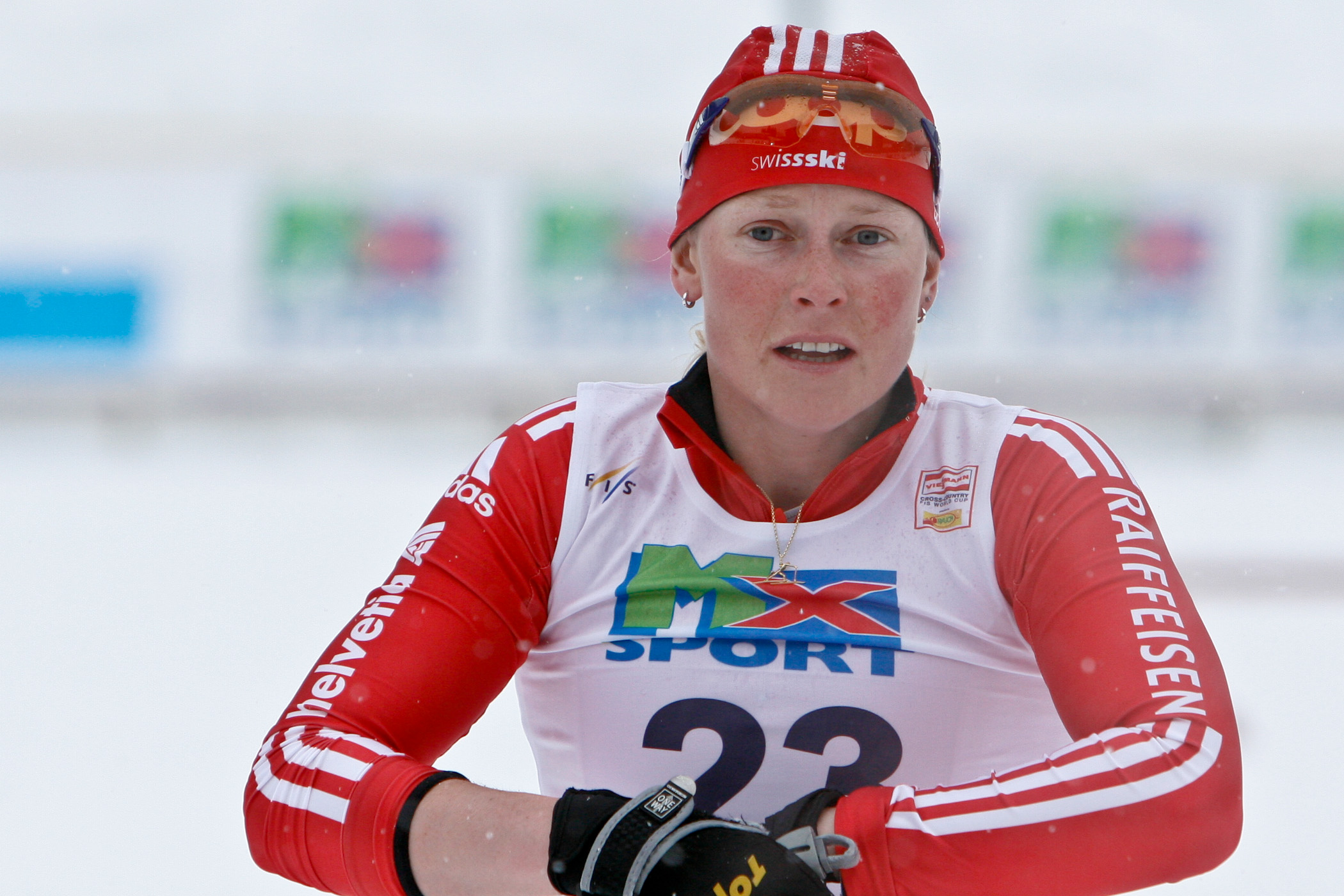 Seraina Mischol at the FIS World cup cross country skiing sprint for women 12 March 2009 in Trondheim, Norway. The license on this photo is Creative Commons (CC-BY-SA). If you use this picture, remember to give credit according to the license (